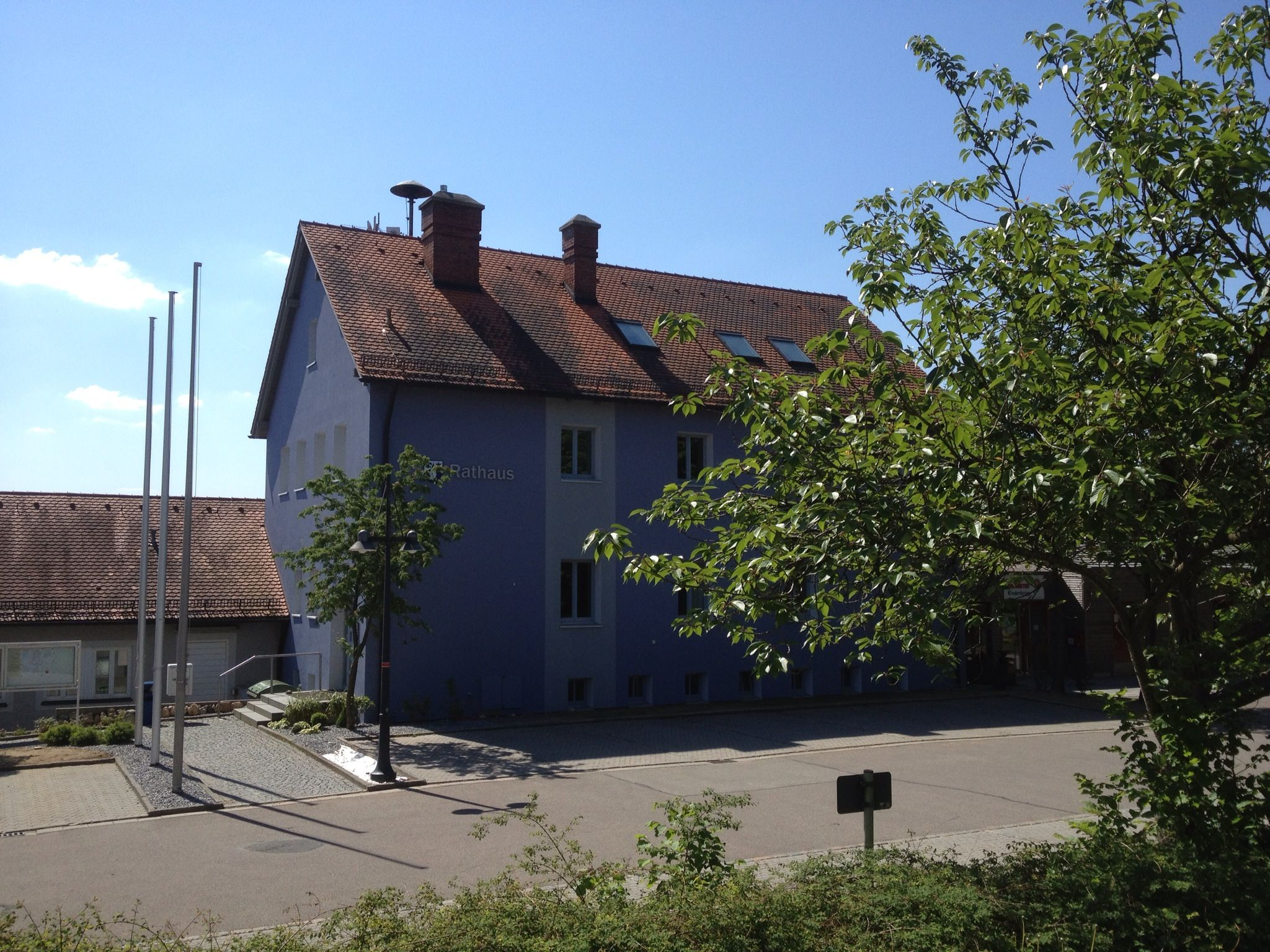 The city hall and seat of the local government of the community of Pettendorf, near Regensburg.